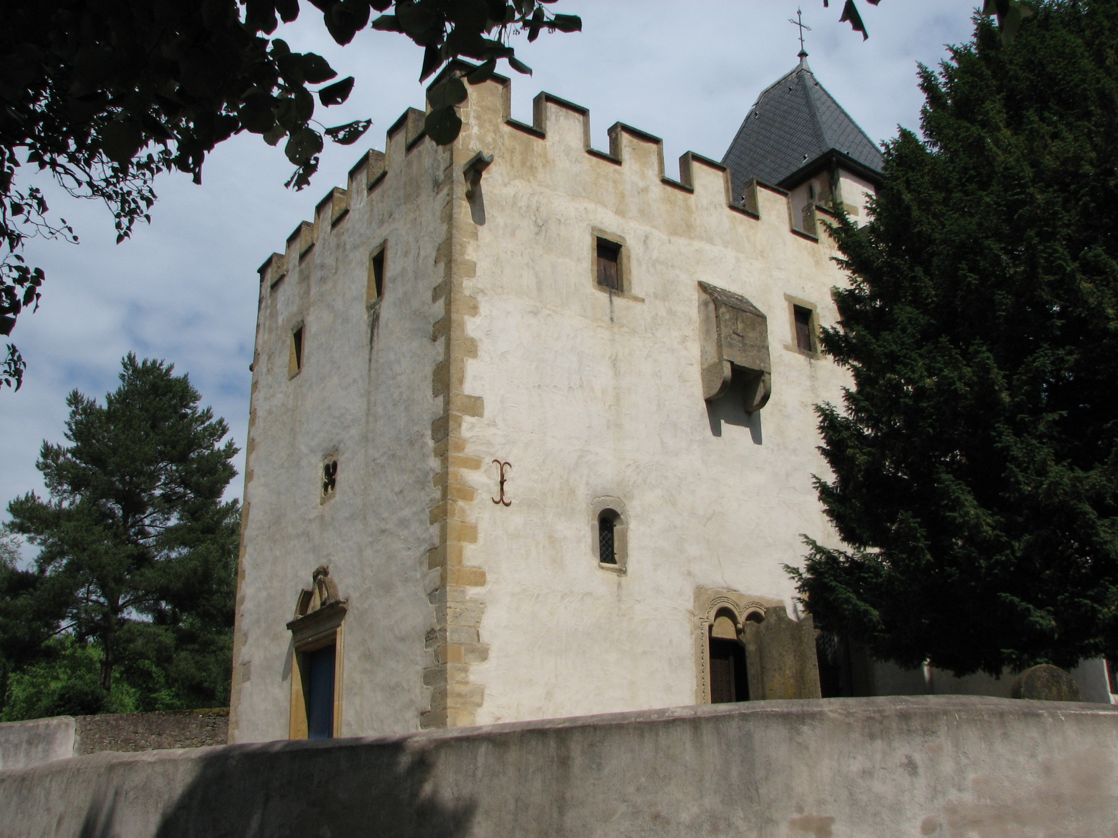 Eglise Saint-Quentin in Scy-Chazelles, east and partial south walls